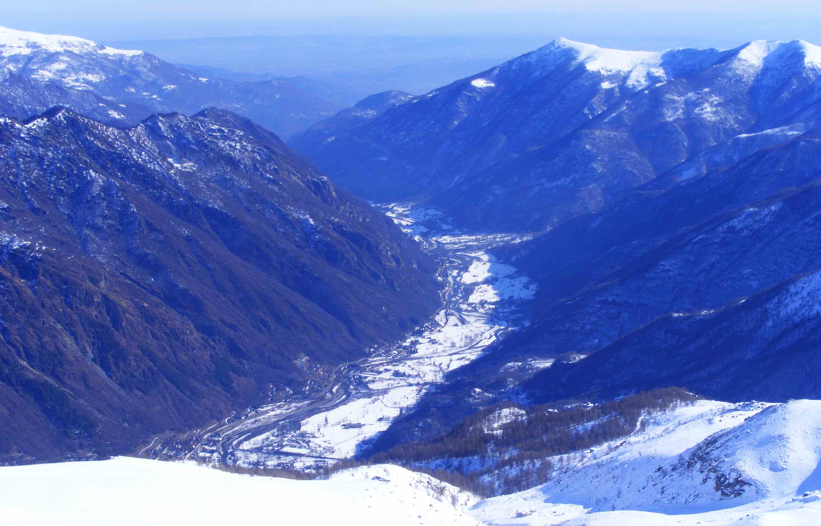 Orco valley from La Cialma (TO, Italy); on the right monte Soglio and cima Mares.